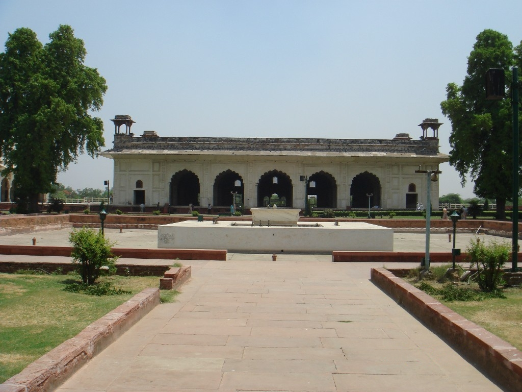 Rang Mahal (Red Fort) . Picture taken by Kaiser Tufail during visit to Delhi, 29-4-08